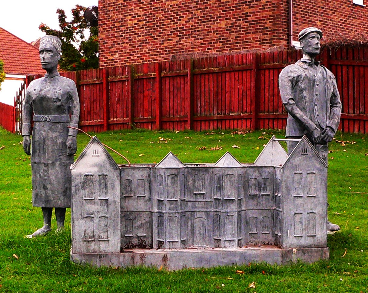 Eston Hspital: commemorative flowerbed sculpture. This commemorates the hospital, originally built for the ironsone miners, which stood on this site.